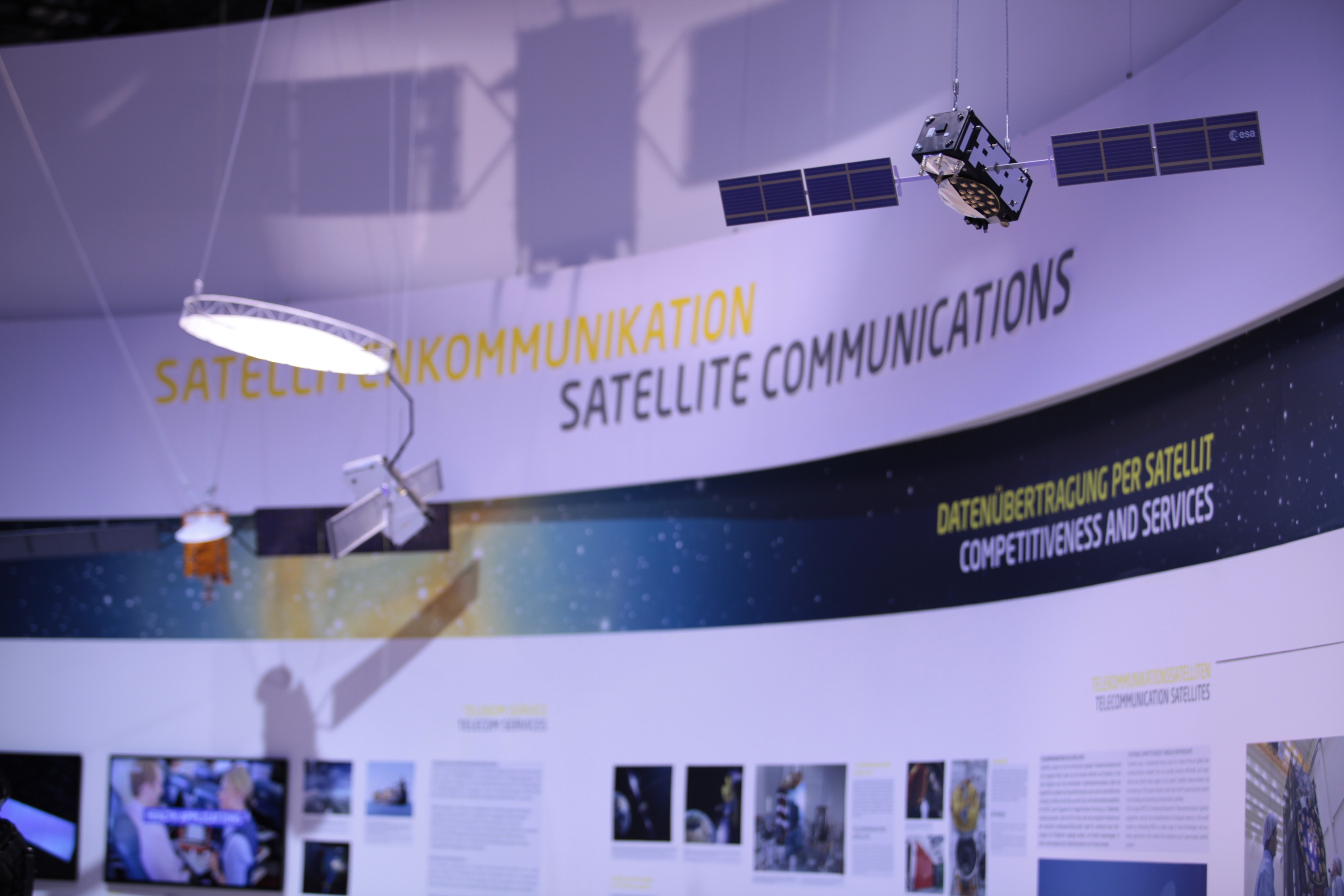 Modelle des Europäischen Datenrelaissatelliten EDRS-A und der Europäischen Geostationären Plattform SmallGEO bei der ILA 2014 / Models of the European Data Relay Satellite and the European Platform for Small Geostationary Communication Satellites at ILA 2014